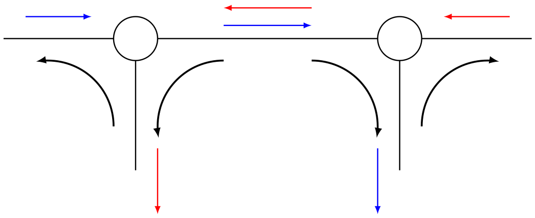 Separation of two laser beams contrapropagating in an optical fiber using two optical circulators.